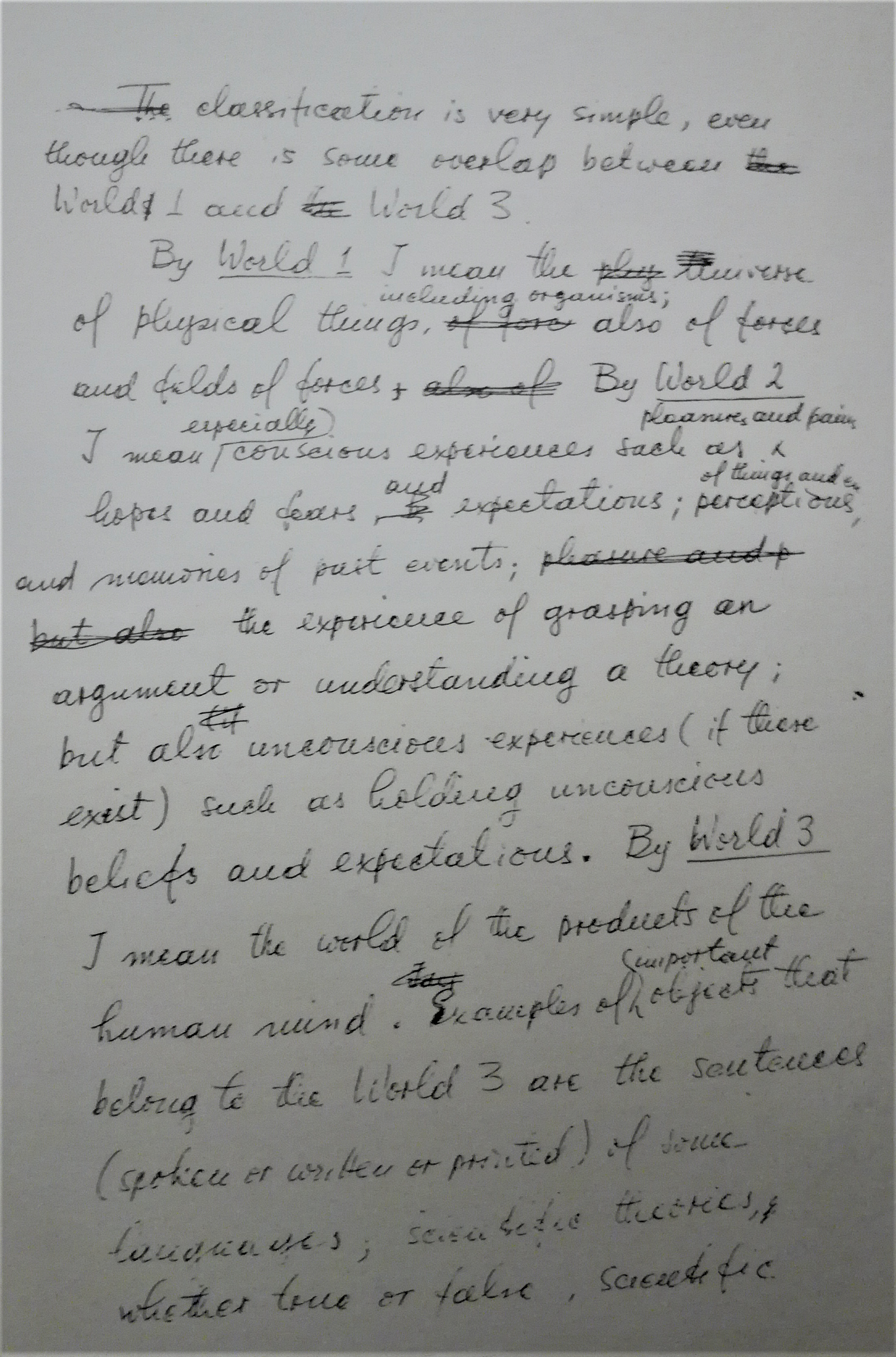 Karl Popper's writing for conference in Turin